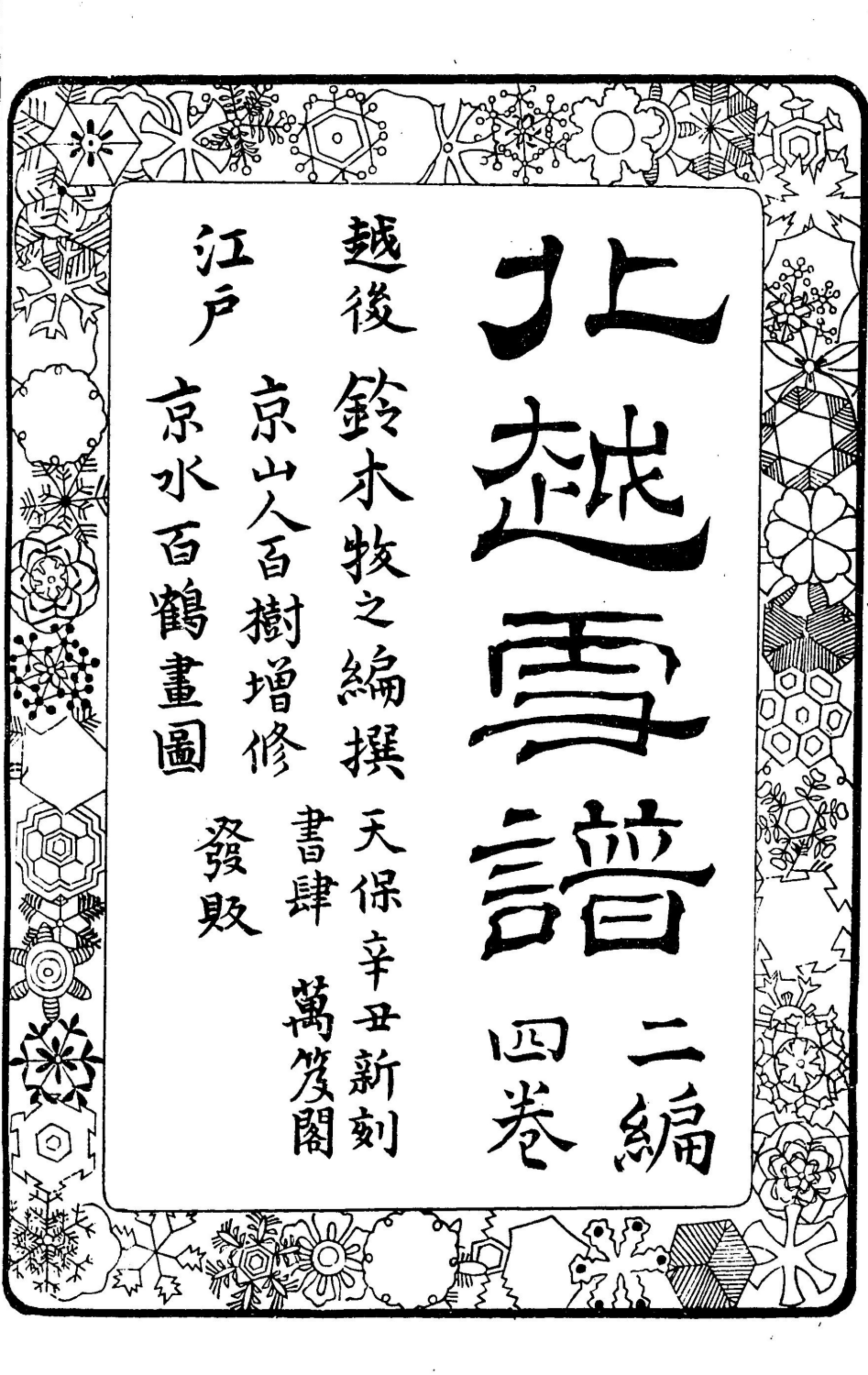 Japanese book "Hokuetsu Seppu" Series 2 Volume 1, written by Suzuki Bokushi published in 1841